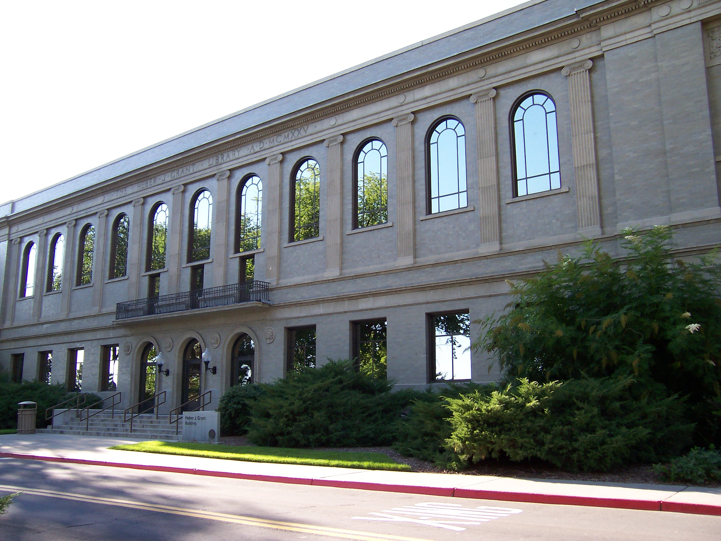 Photograph of Grant (Heber J.) Building at Brigham Young University.